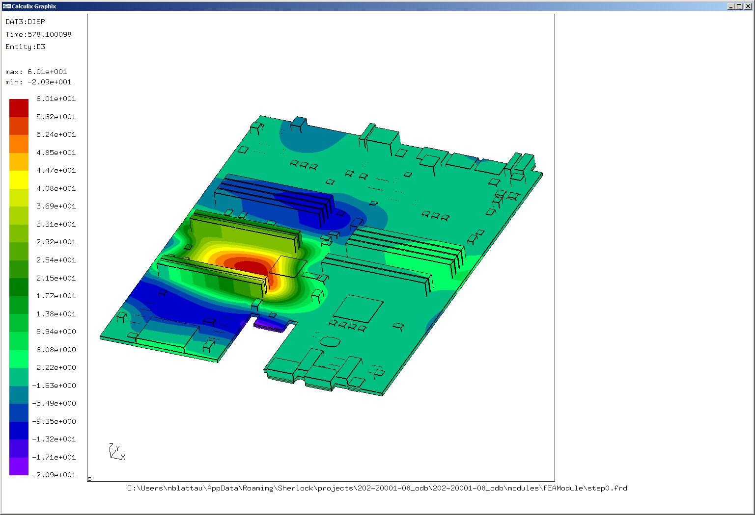 Sherlock Automated Design Analysis softwareTM by DfR Solutions contains a full 3D finite element analysis (FEA) engine